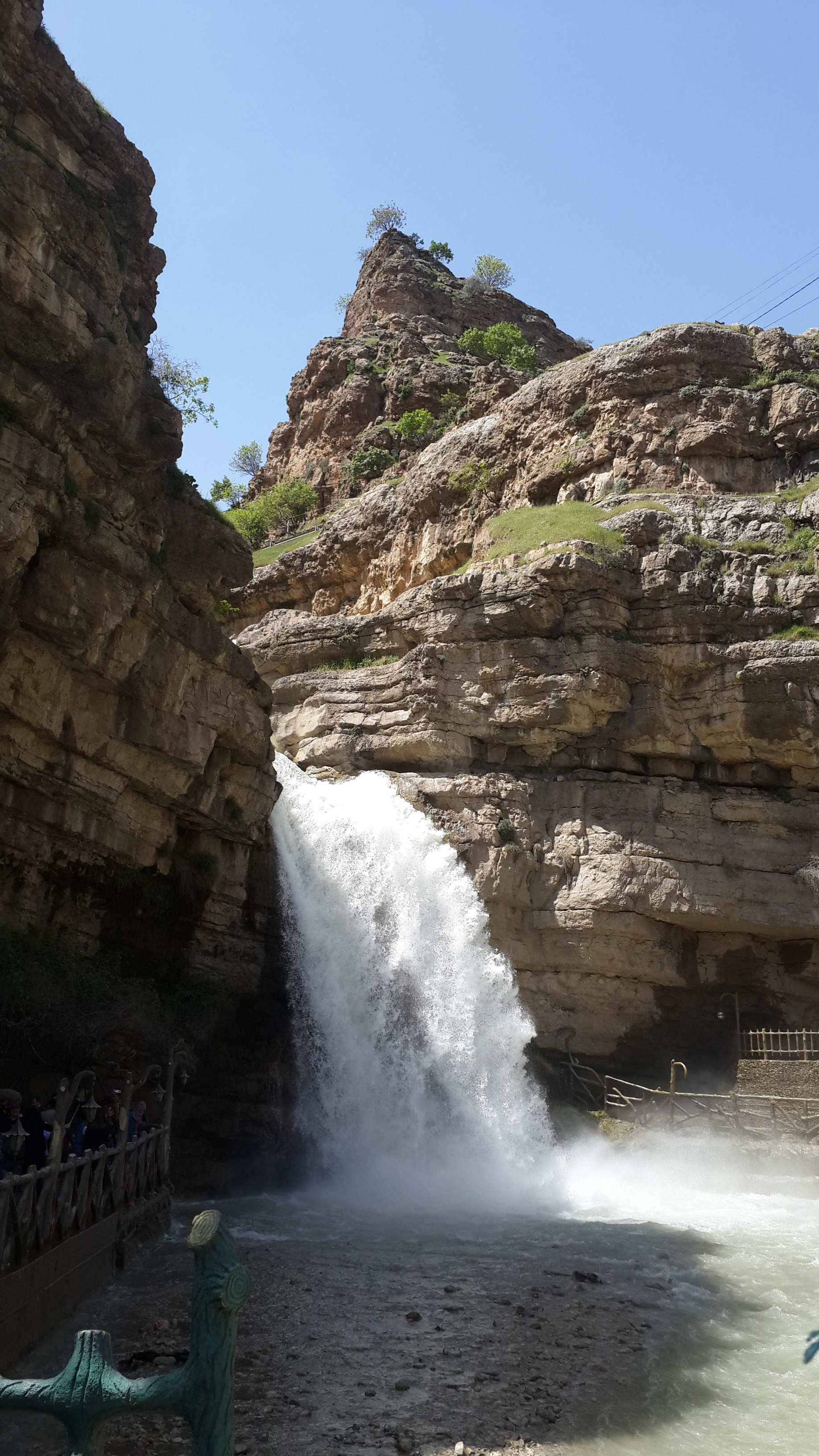 Erbil